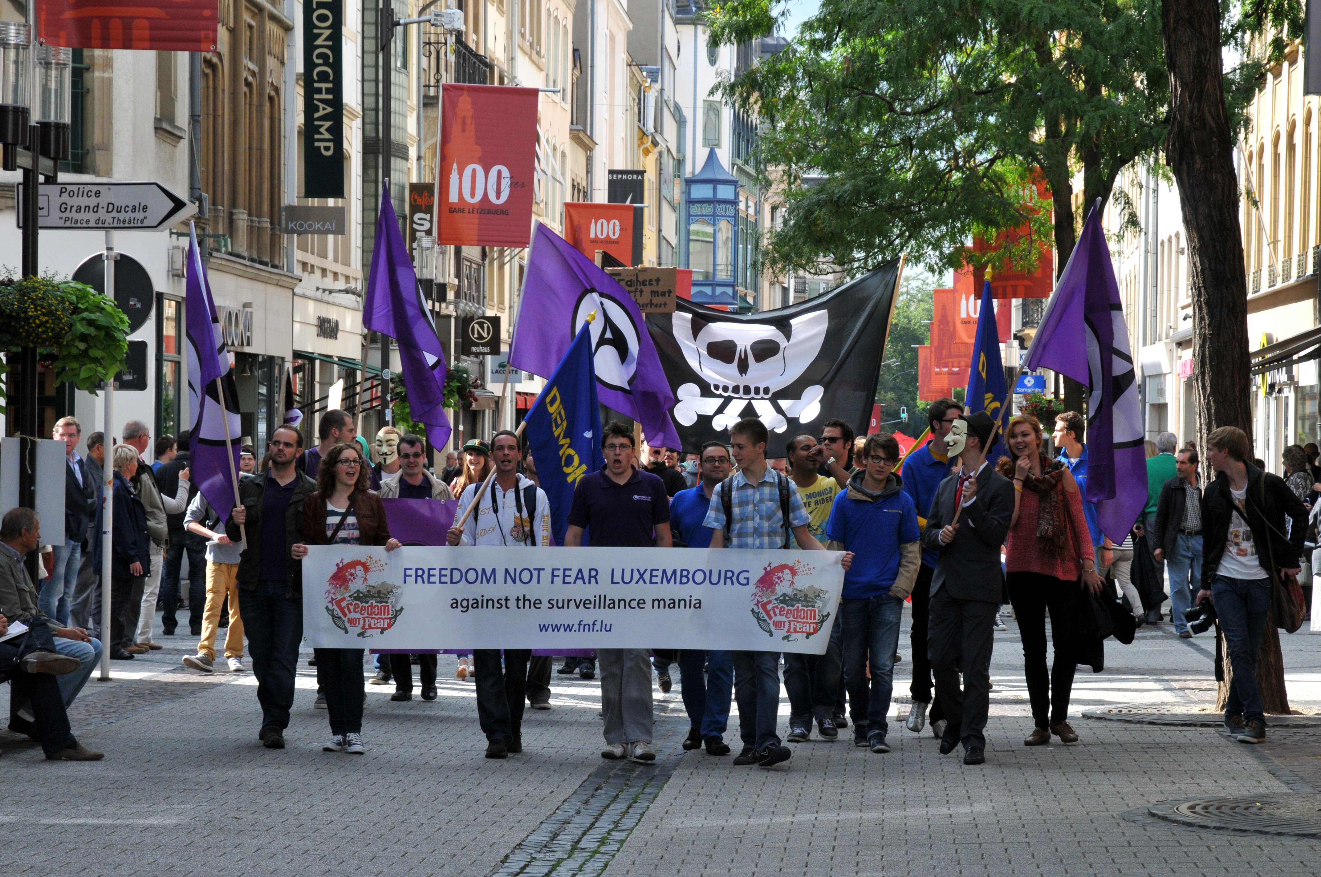 Freedom not Fear, Luxembourg, September 2012.